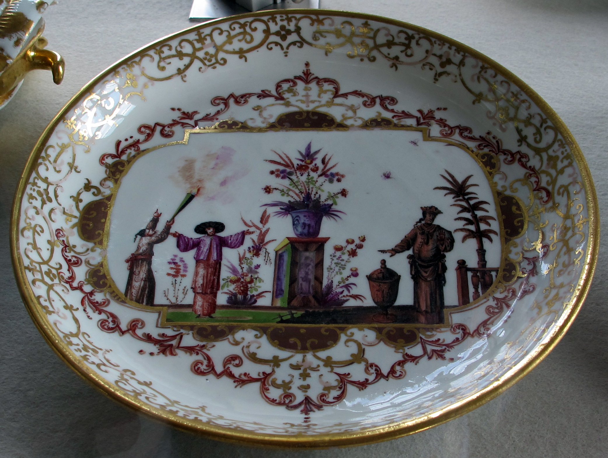 Porcelain Museum (Florence) - Meissen porcelain